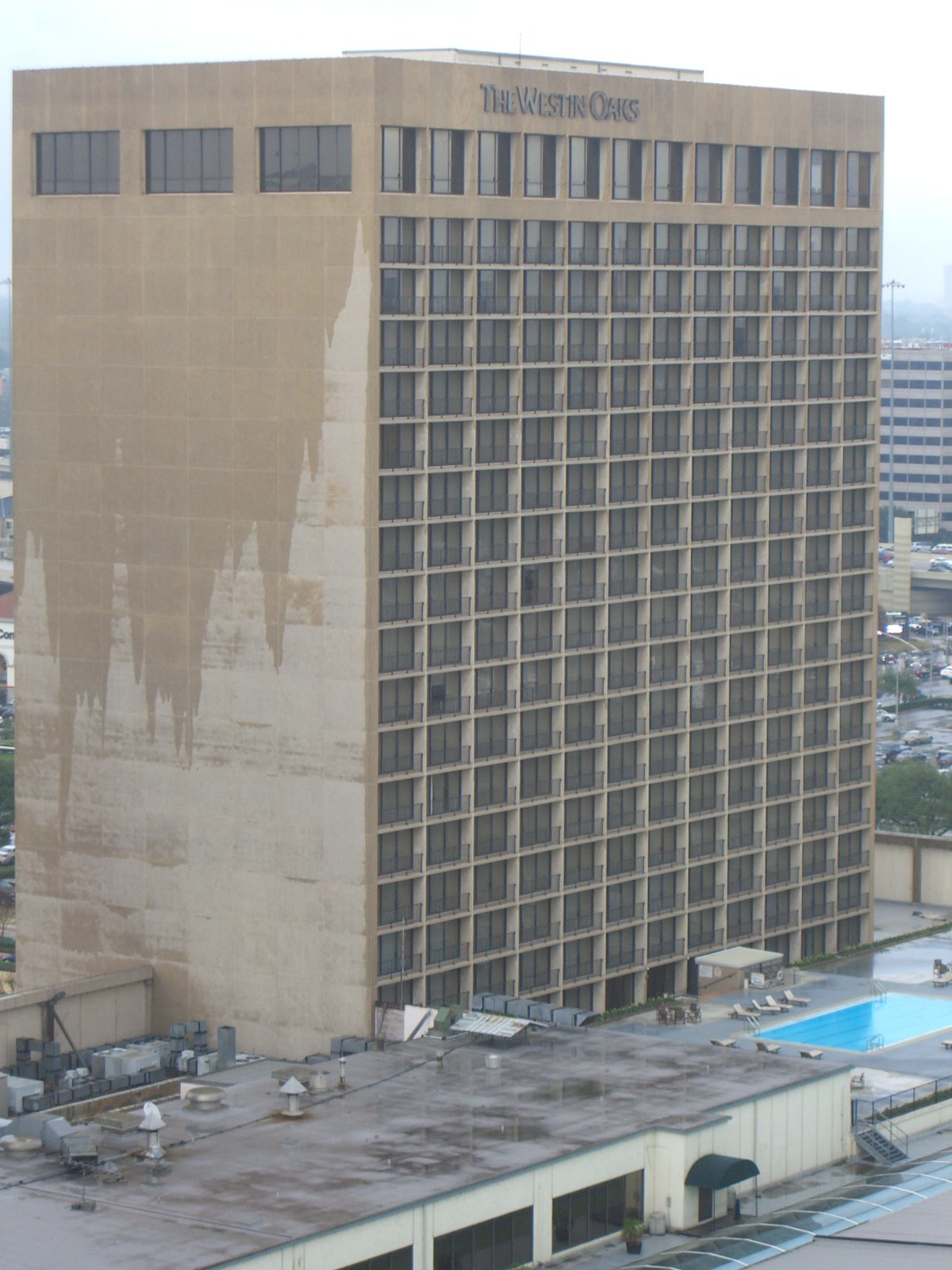 Photo of a building